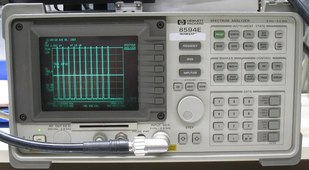 HP(Agilent) Spectrum Analyzer 8594E